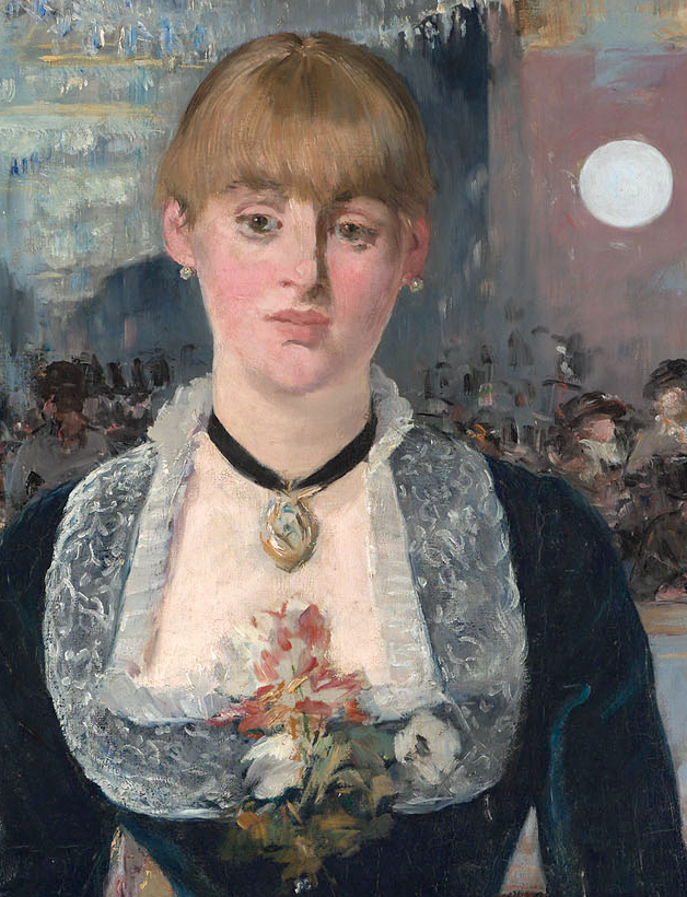 A Bar at the Folies-Bergère, detail II